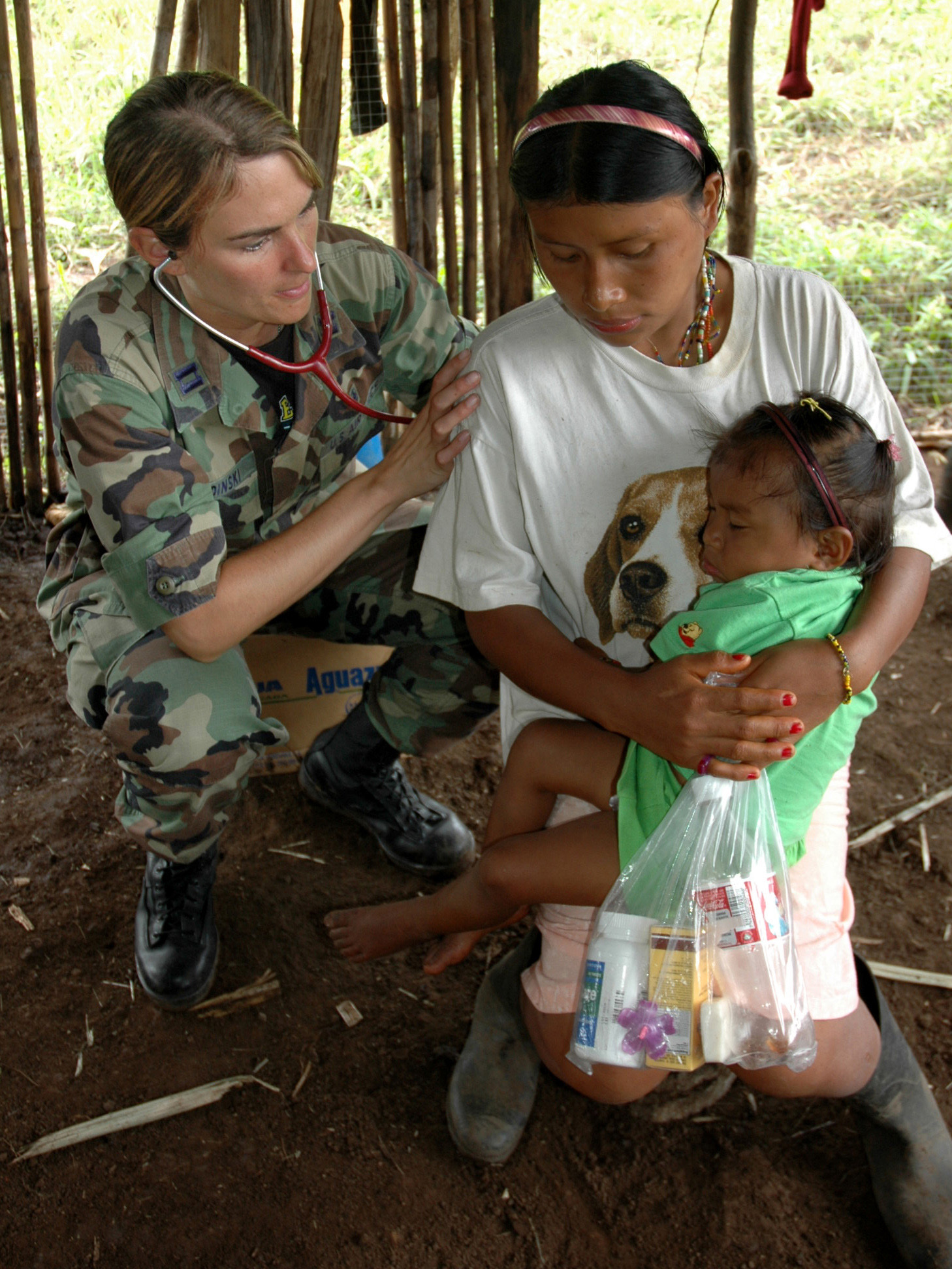 U.S. Air Force Capt. Michelle Sredinski listens to the breathing of a Costa Rican woman in a makeshift medical clinic in Piedra Mesa, Costa Rica, on Dec. 18, 2007. Joint Task Force-Bravo deployed 28 service members from Soto Cano Air Base, Honduras, to Costa Rica at the invitation of the country's Ministry of Health for the first medical readiness training exercise in more than three years.